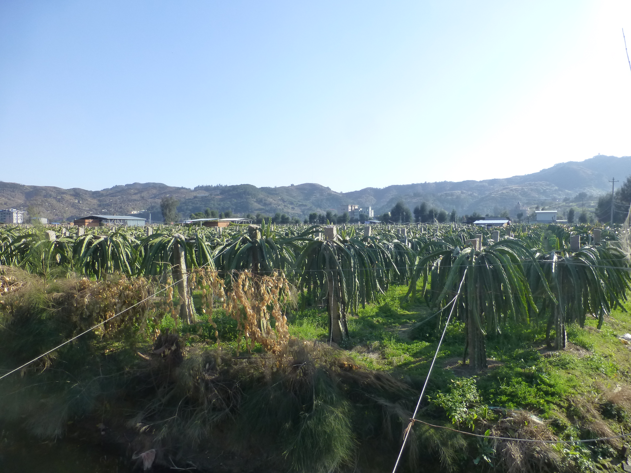 The farm of the Yangguang Red-flesh Dragon Fruit Agricultural Cooperative Society, east of Dongdai Town, Lianjiang County, Fujian